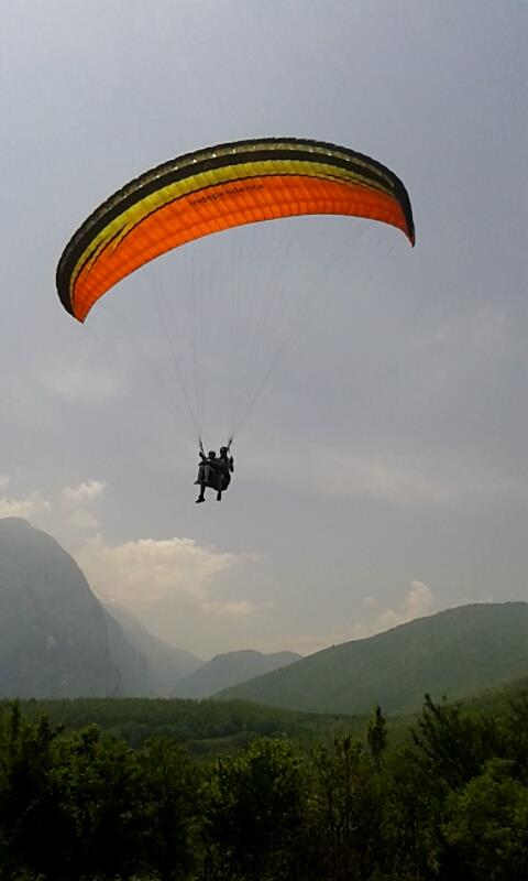 Peja aeroclub paragliding in Maja e Zeze, Peje, Kosovo